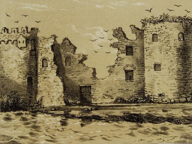 Castle Hulkenstein at Nijkerk in 1854